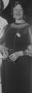 Fina Suárez- actriz argentina